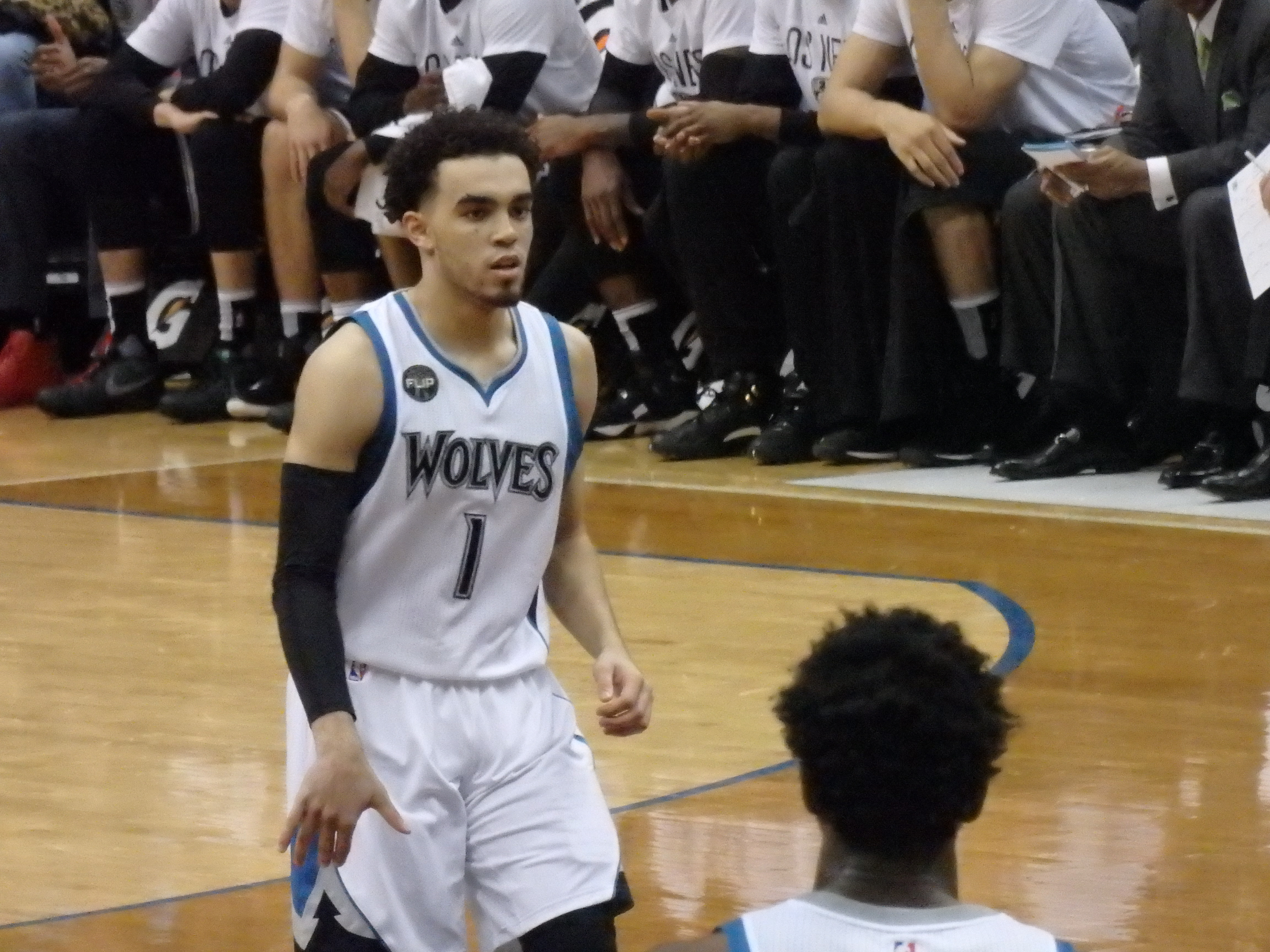 Tyus Jones playing for Minnesota Timberwolves in 2016